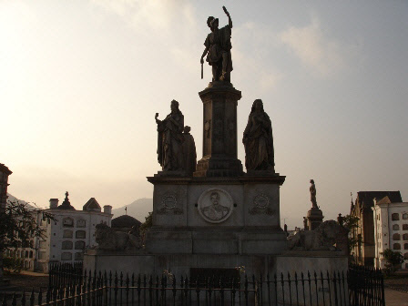 ramon castilla ....................no se